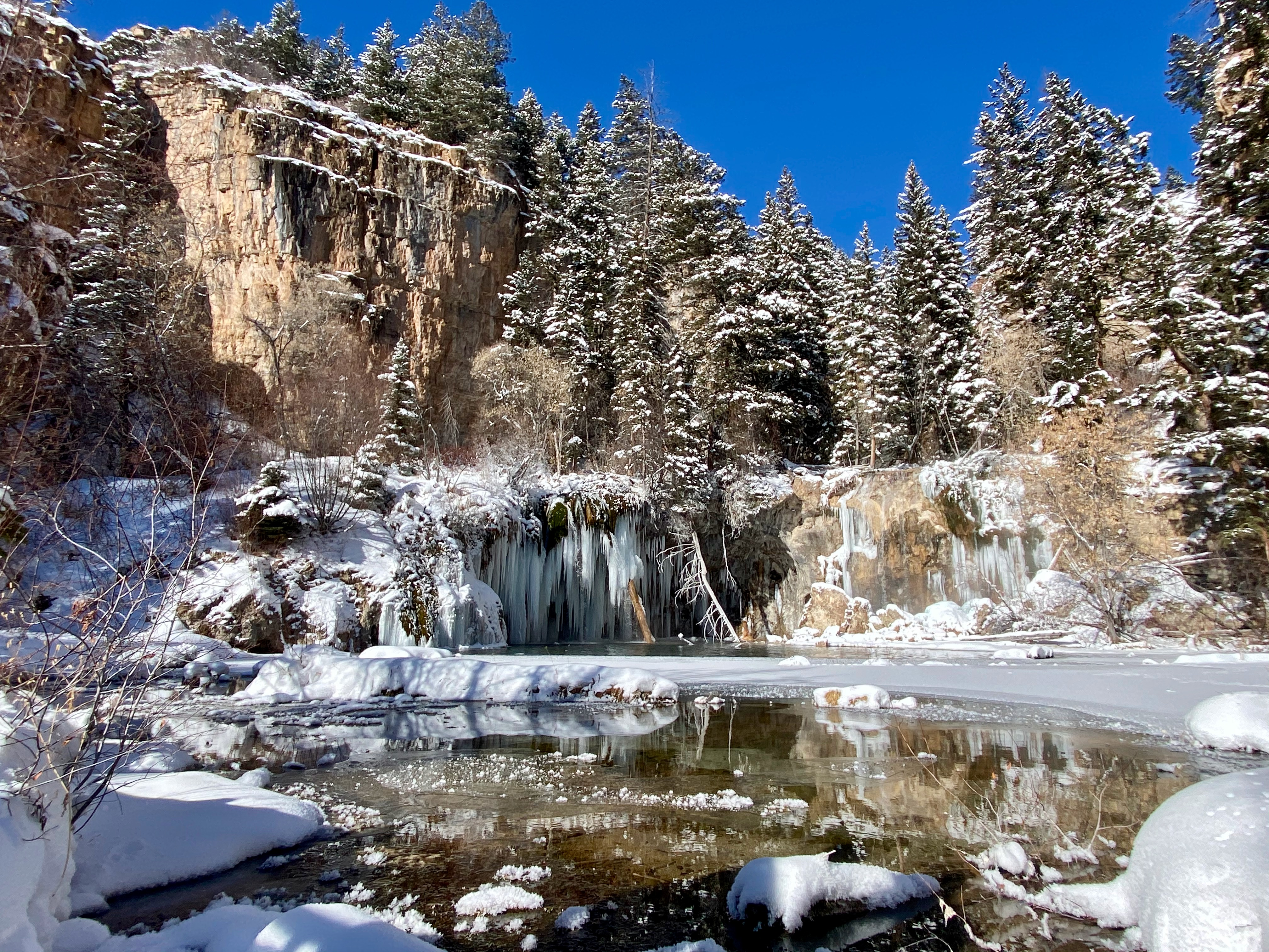 Hanging Lake is a lake in the U.S. State of Colorado. It is located in Glenwood Canyon, about 7 miles (11 km) east of Glenwood Springs, Colorado.